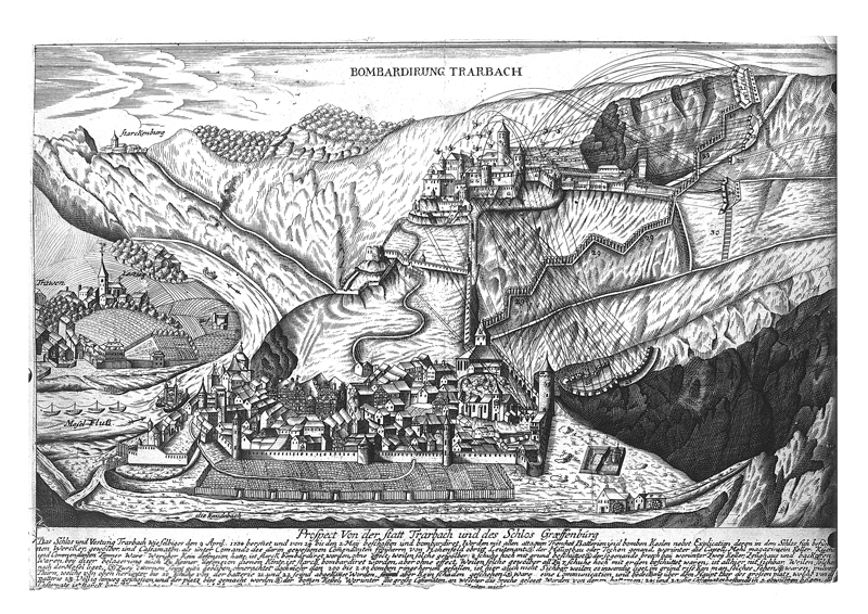 Bombardment of Trarbach (Siege of Trarbach)